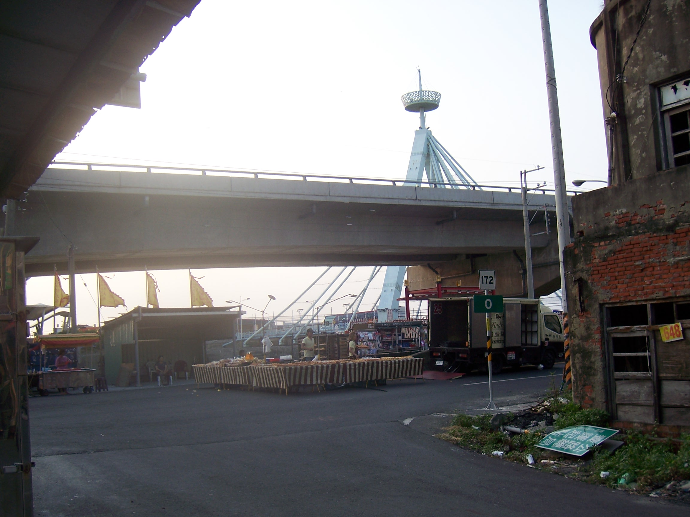 West end of County Highway No. 172 of Taiwan, at Budai Township, Chiayi County, Taiwan.